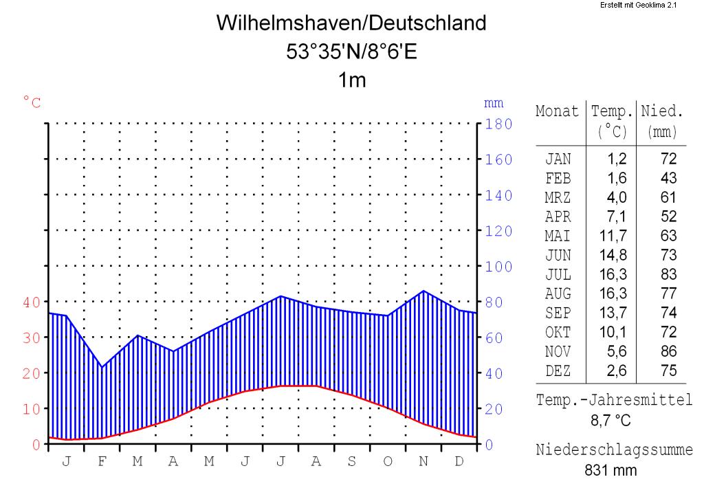 climate chart in the format by Walther and Lieth, metric, °Celsisus and millimeters, made with Geoklima 2.1 Software: Geoklima 2.1 Website Geoklima